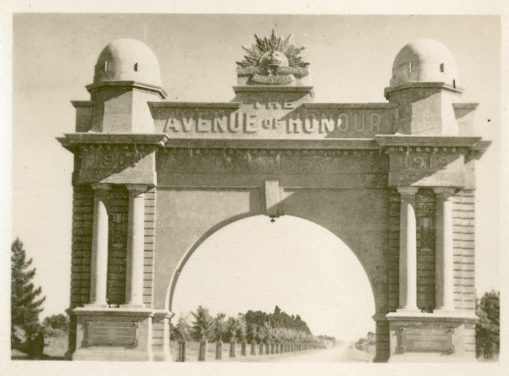 Avenue of Honour